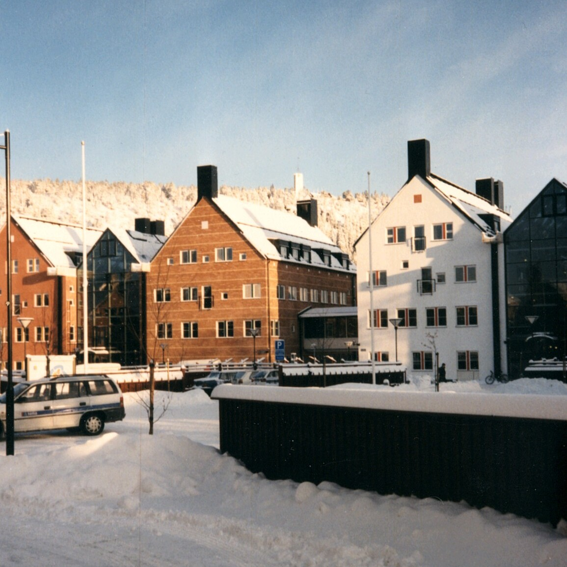 Mid Sweden University, Campus Sundsvall (Åkroken), Sweden